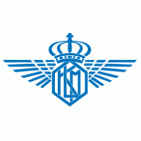 klm logo 1919